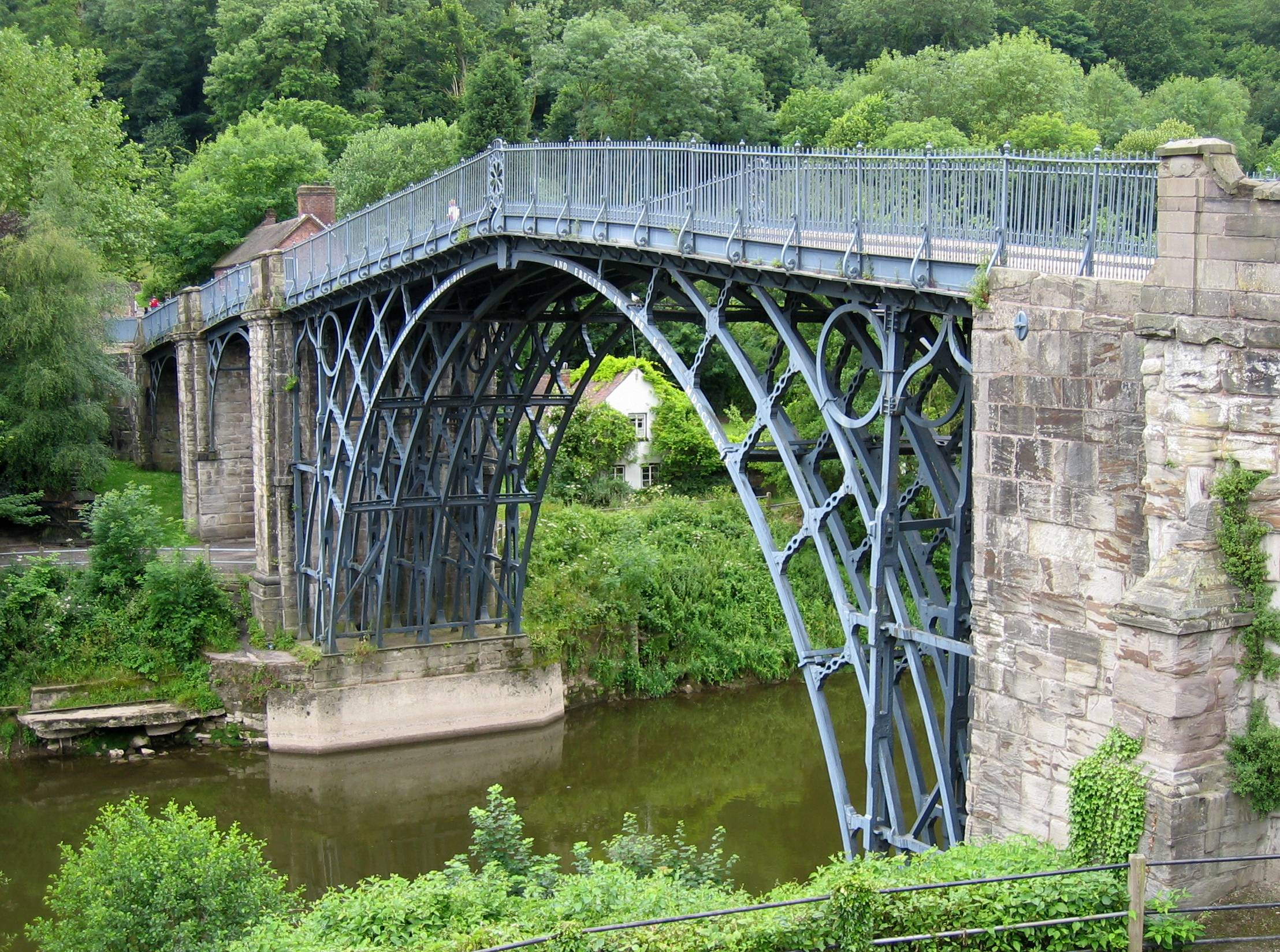 Another view of the bridge